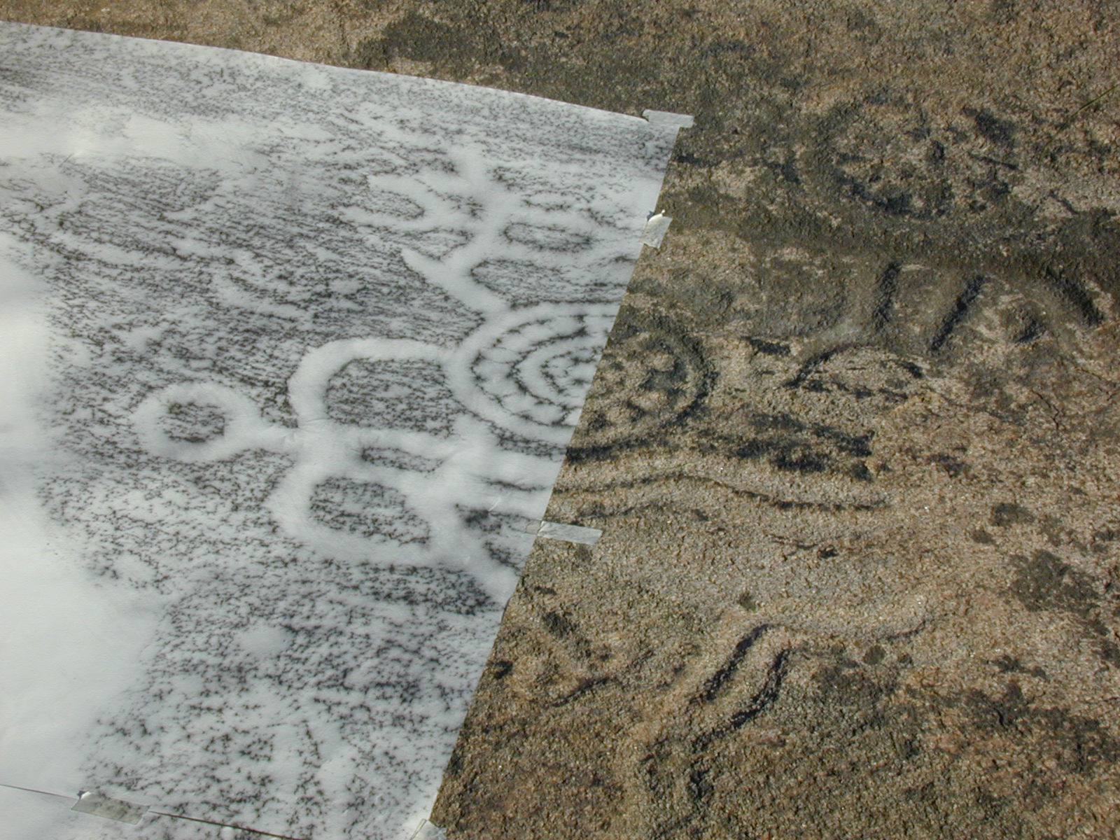 Documentation of rockcarving using the rubbing technique in Hede, Kville parish, Kville hundred, Tanum municipality, Bohuslän, Västra Götaland county, Sweden.